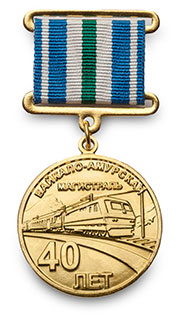 Commemorative medal "40 Years of the Baikal-Amur Mainline"